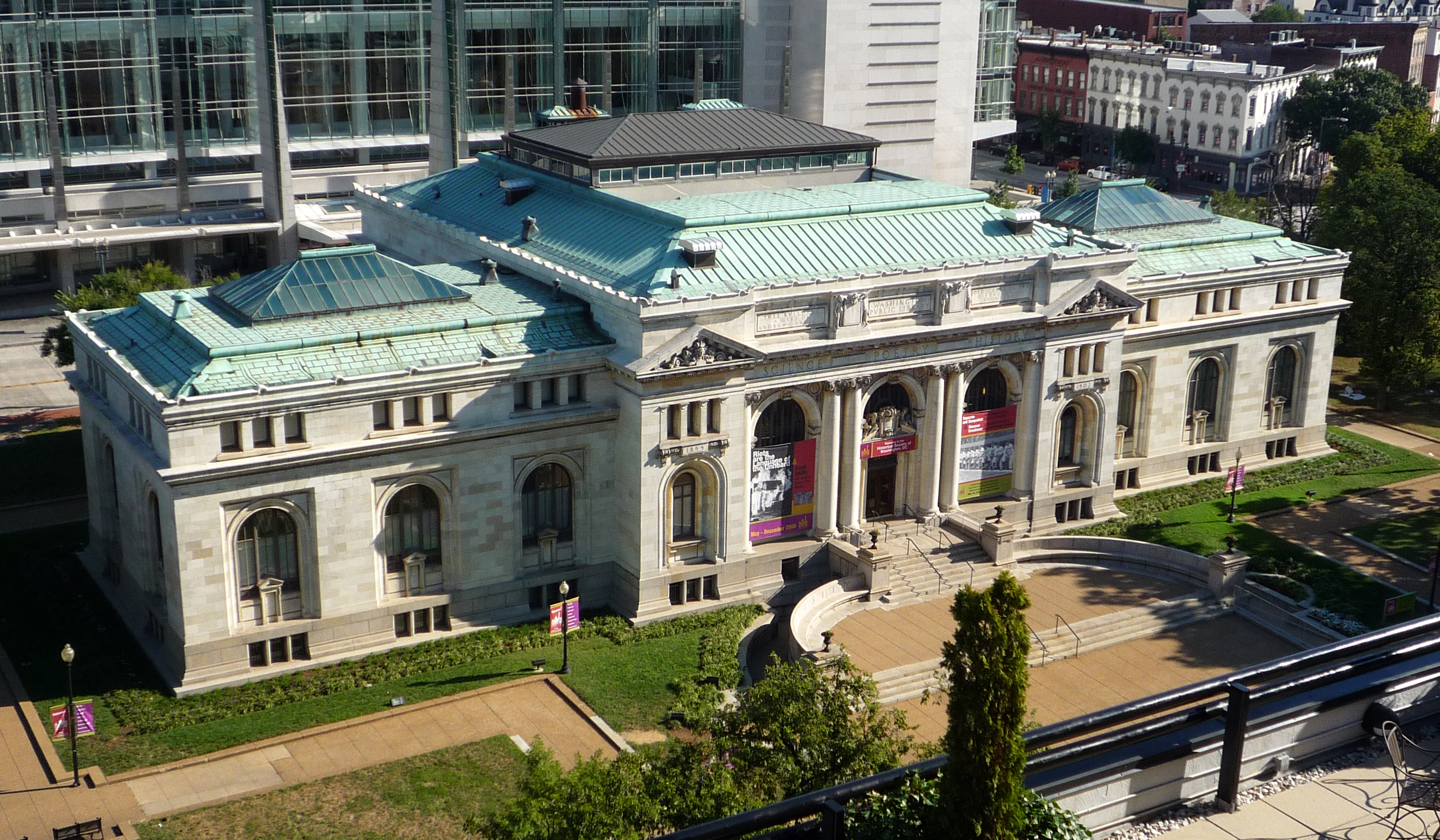 The City Museum of Washington, D.C., located in Mount Vernon Square, Washington, D.C.. The structure was originally one of the many Carnegie libraries; behind it is the Washington Convention Center.